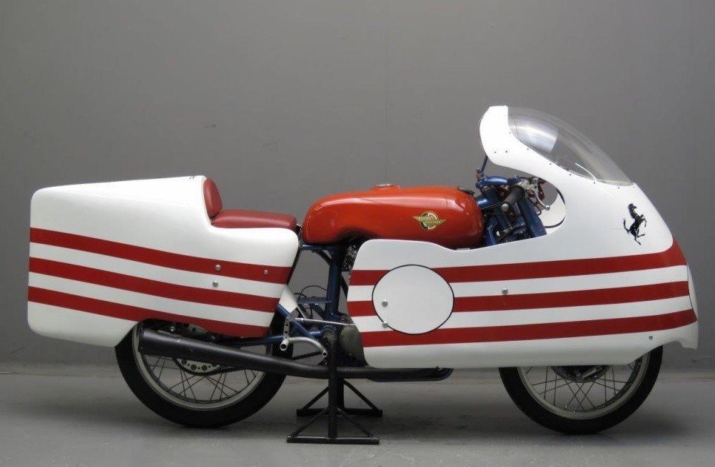 1958 Ducati 125 Trialbero factory racing motorcycle